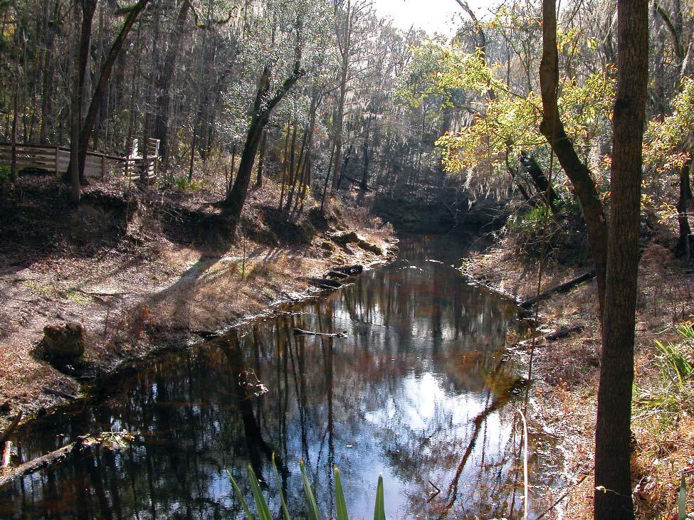 Photograph of Falmouth Spring in Florida